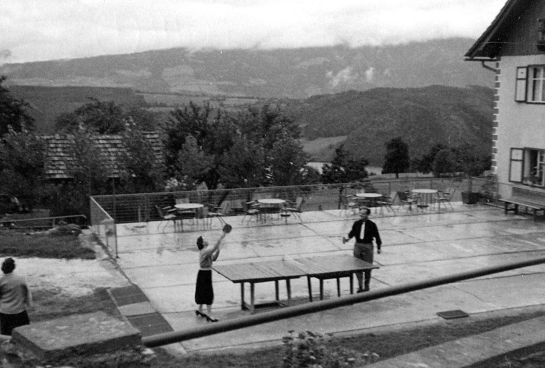 Karolinenhof in Sappl near Lake Millstatt (Millstätter See), district Spittal an der Drau in Carinthia / Austria / EU. Two tourists play table tennis. In the background Millstätter See Rücken and Goldeck.